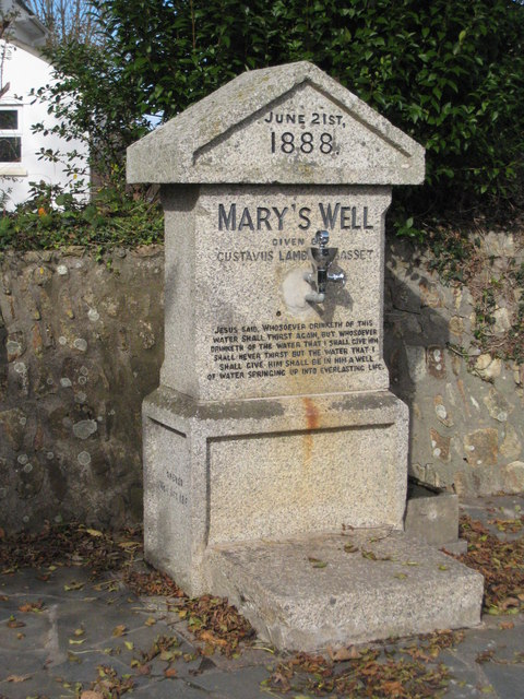 Mary's Well Illogan Given by Gustavus Lambert Basset of Tehidy Park.